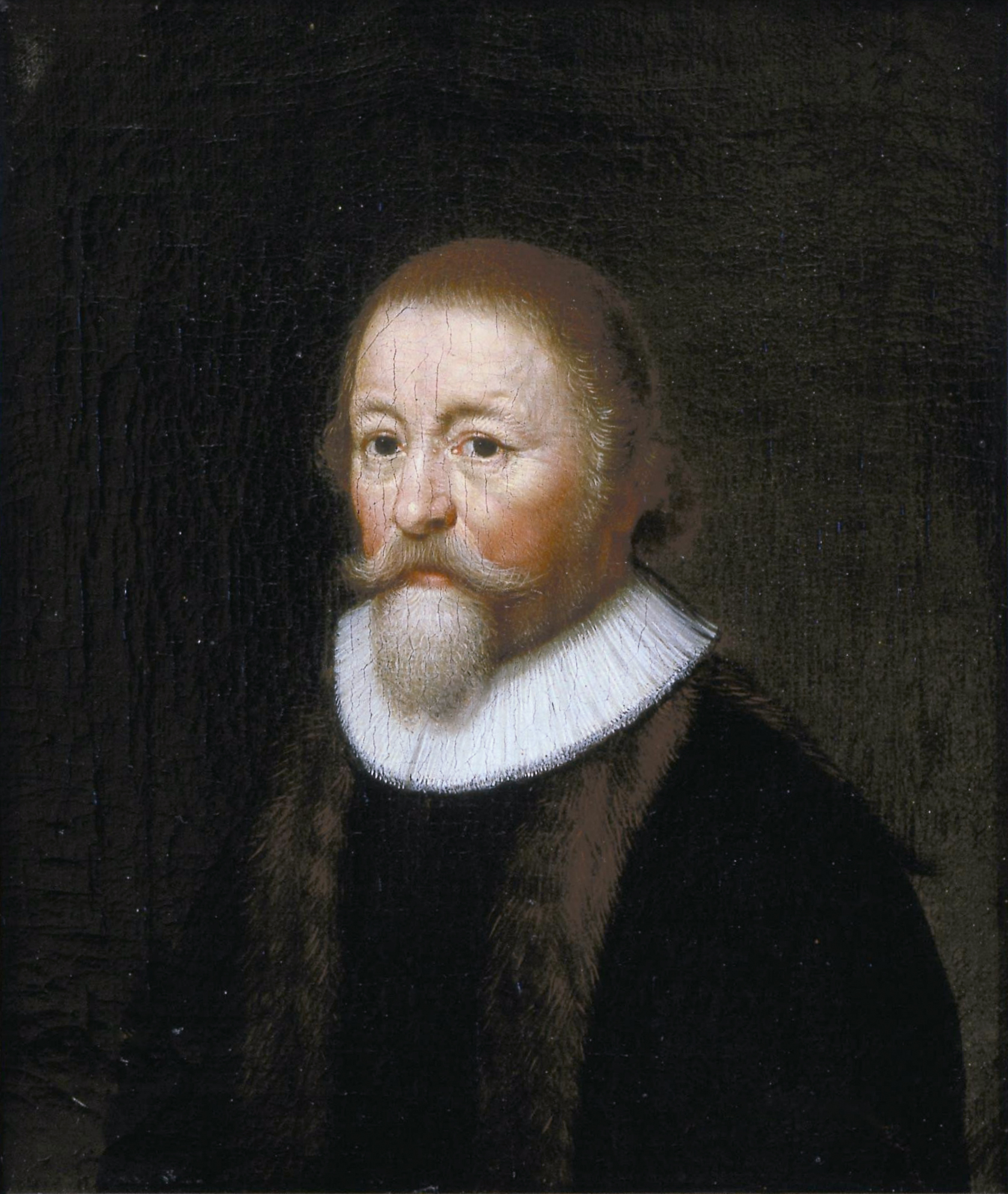 Simon Episcopius (1583-1643) oil on canvas 28.2 x 24.3 cm 1743